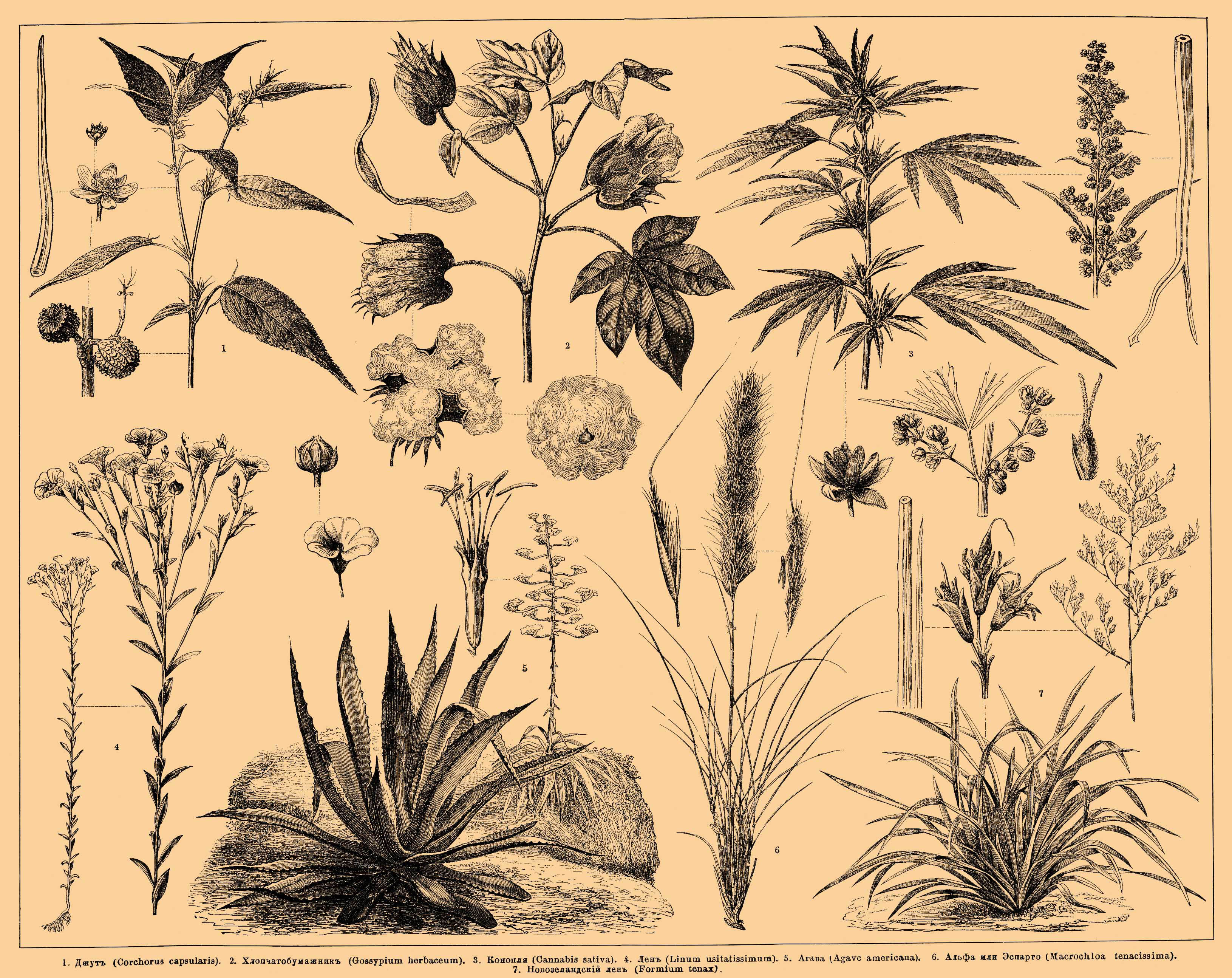 Illustration from Brockhaus and Efron Encyclopedic Dictionary(1890—1907)